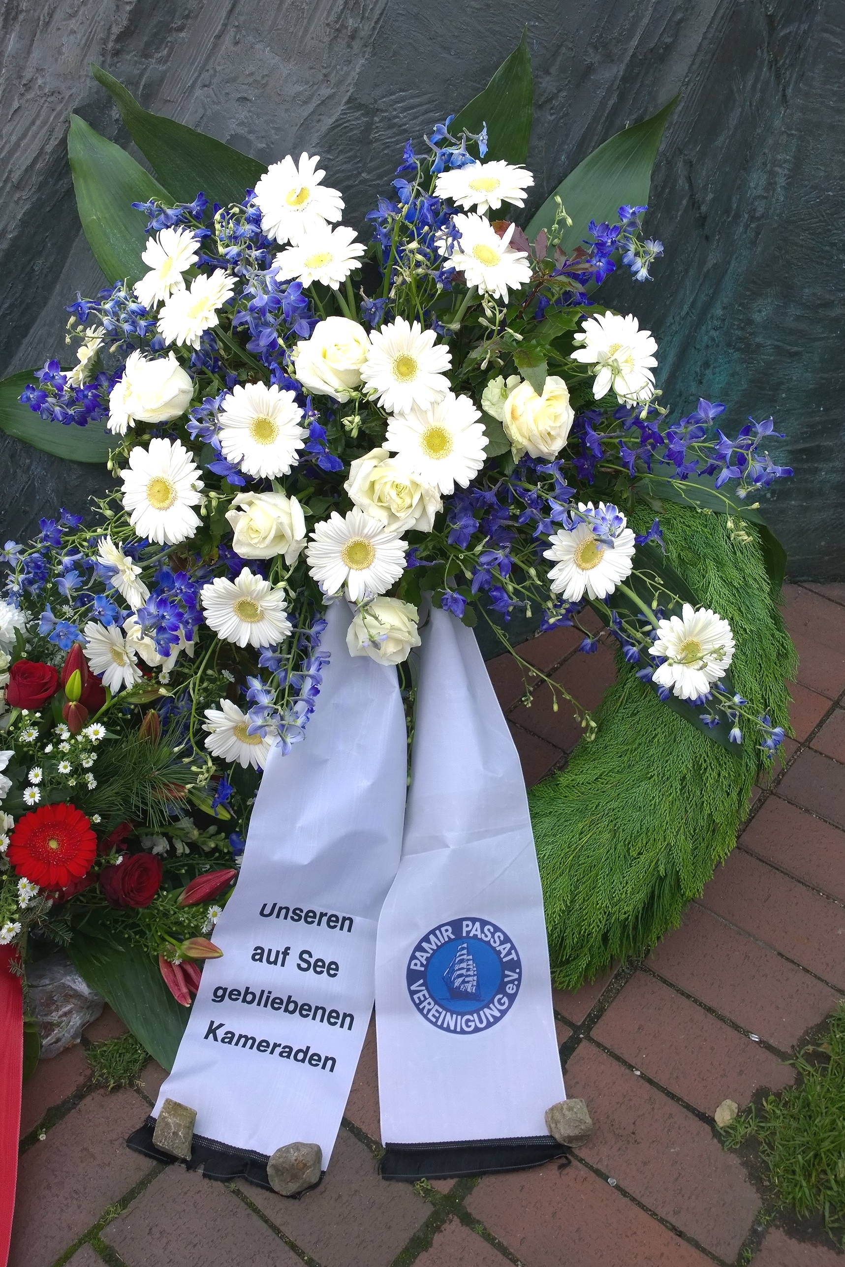 Madonna of the Sea - Wreath of PAMIR and PASSAT Association